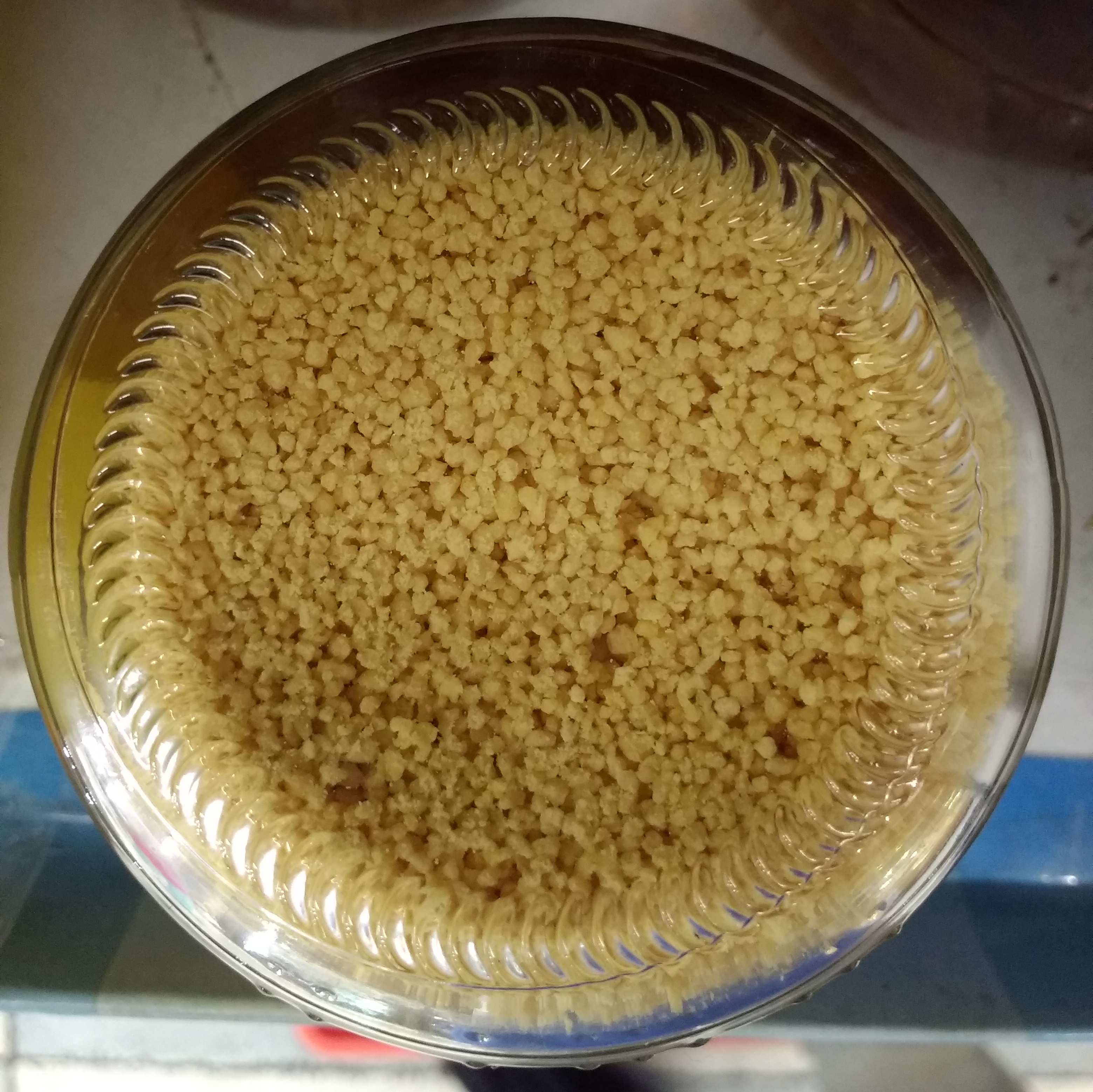 A jar of soy lecithin for sale in Montevideo.